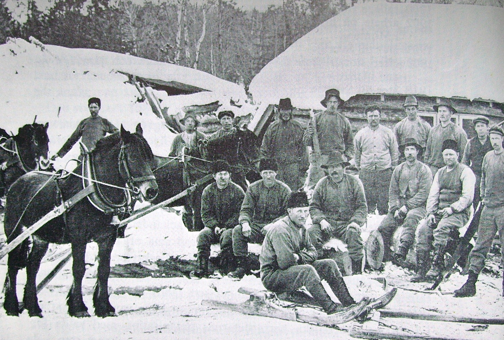 Picture of lumberjacks in Dödre in Jämtland, Sweden